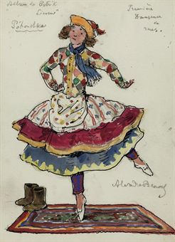 Benois design for the First Street Dancer